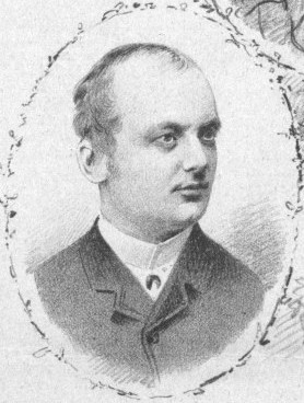 Portrait of Willy Thaller (1854-1941), Austrian opera singer and actor.